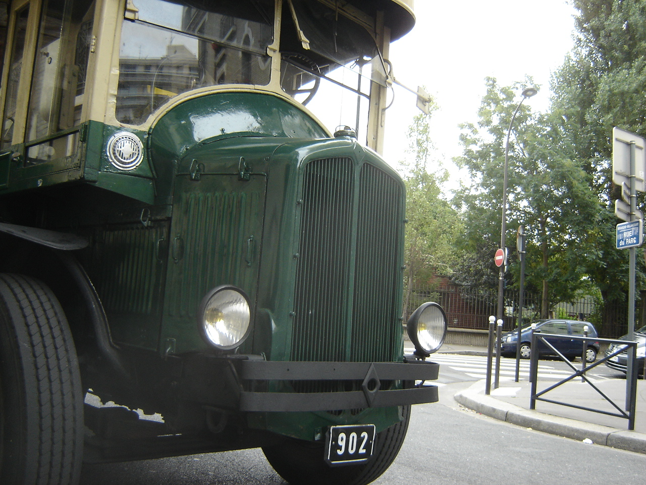 Autobus Renault TN4